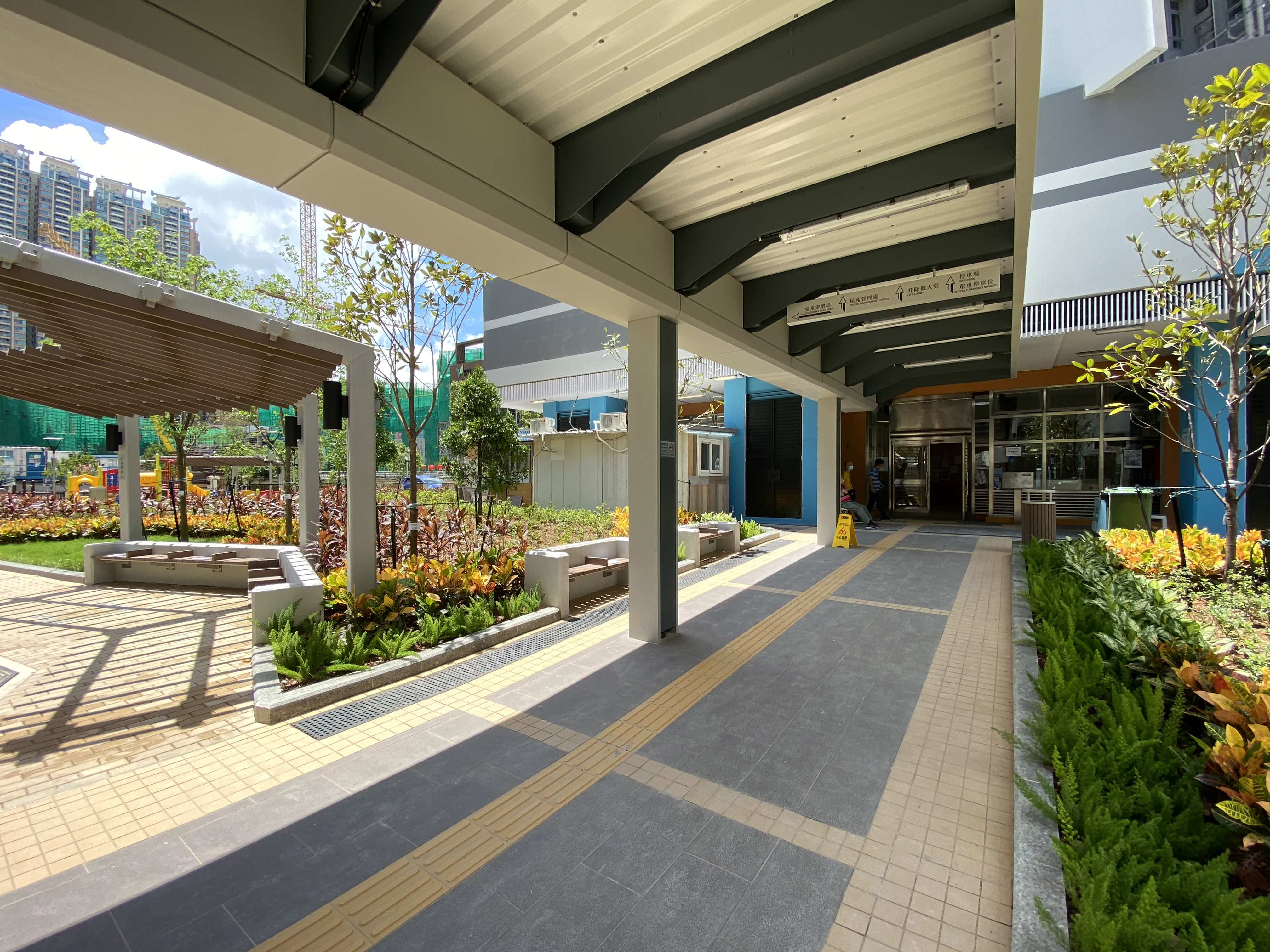 Yuk Wo Court Landscape Area